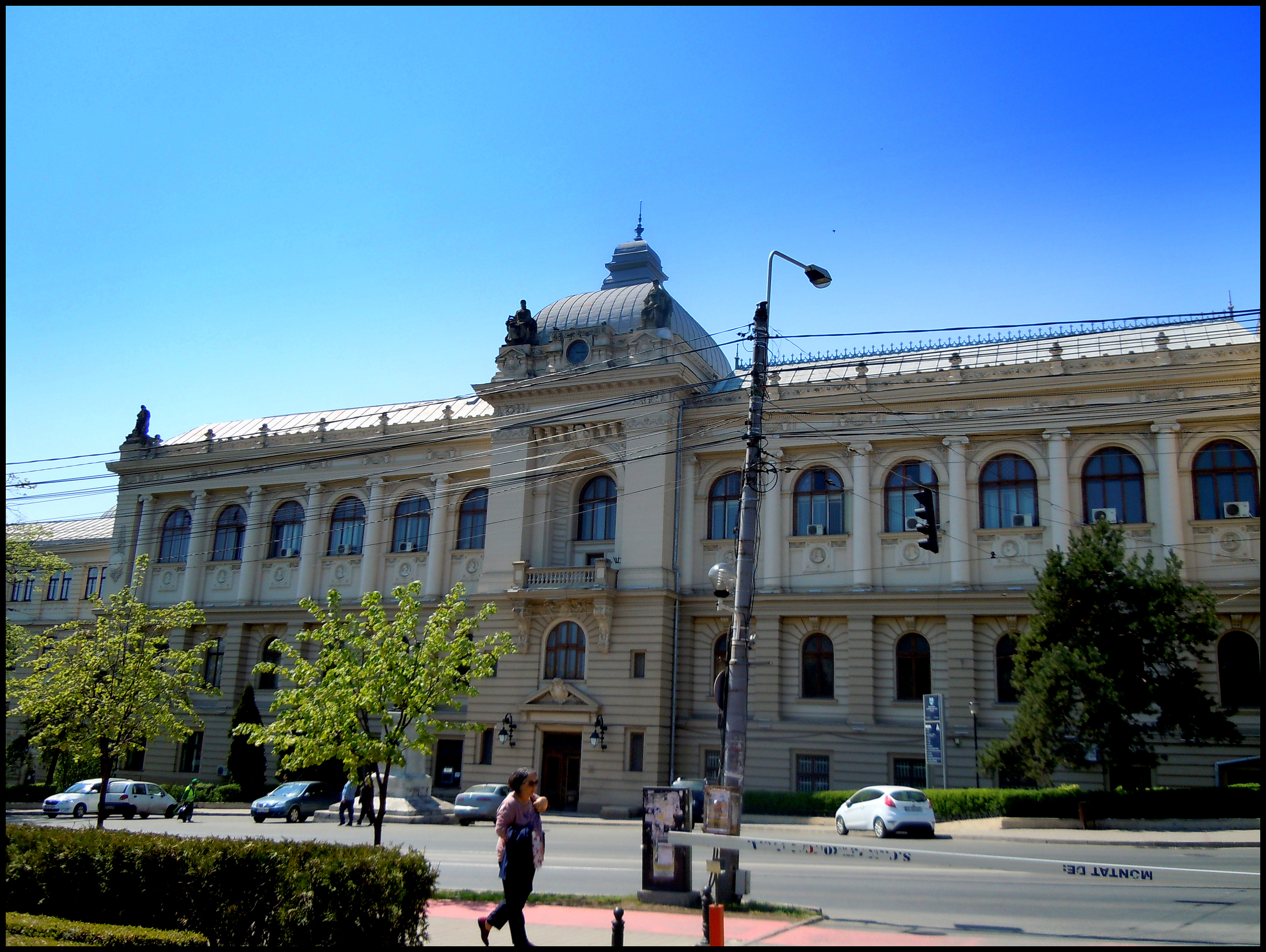 University "Alexandru Ioan Cuza" , Building A , Iaşi , Romania